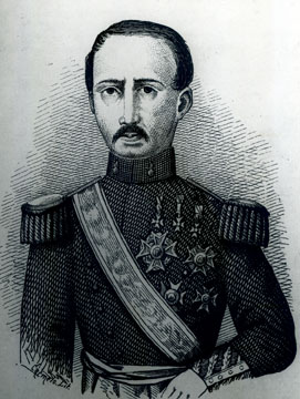 Narciso Claveria y Zaldua — the Spanish colonial Governor-General of the Philippines from 1844 to 1849.